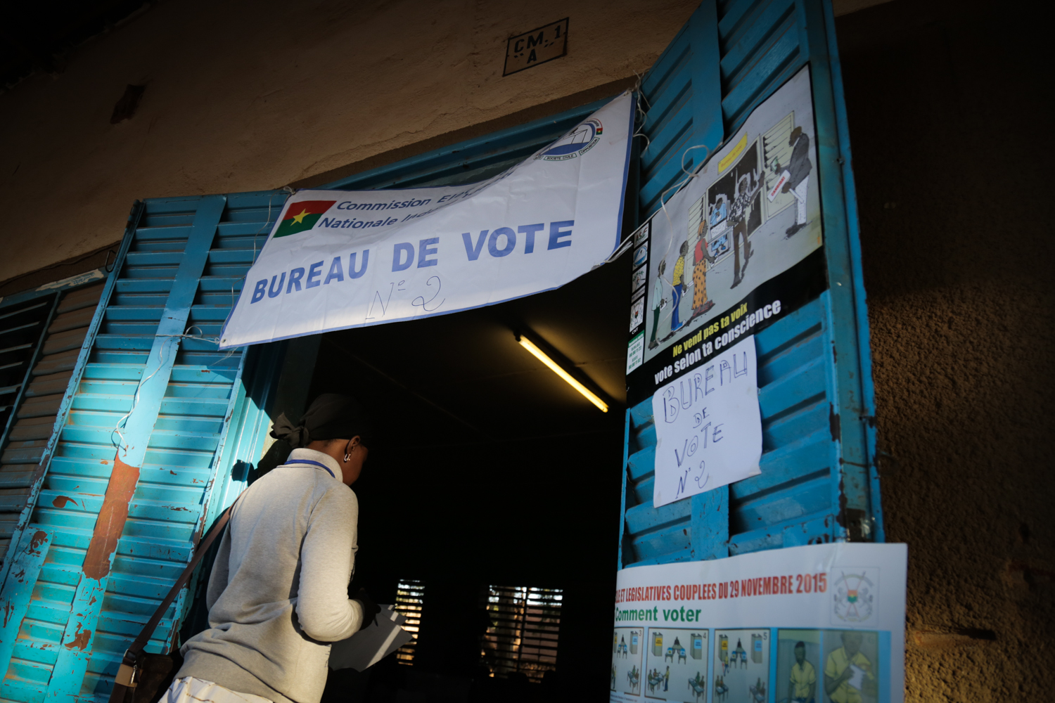 A voter entering a polling station in Ouagadougou, Burkina Faso, Nov. 29, 2015.